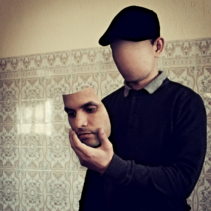 The real me, an artwork by artist photographer Achraf Baznani